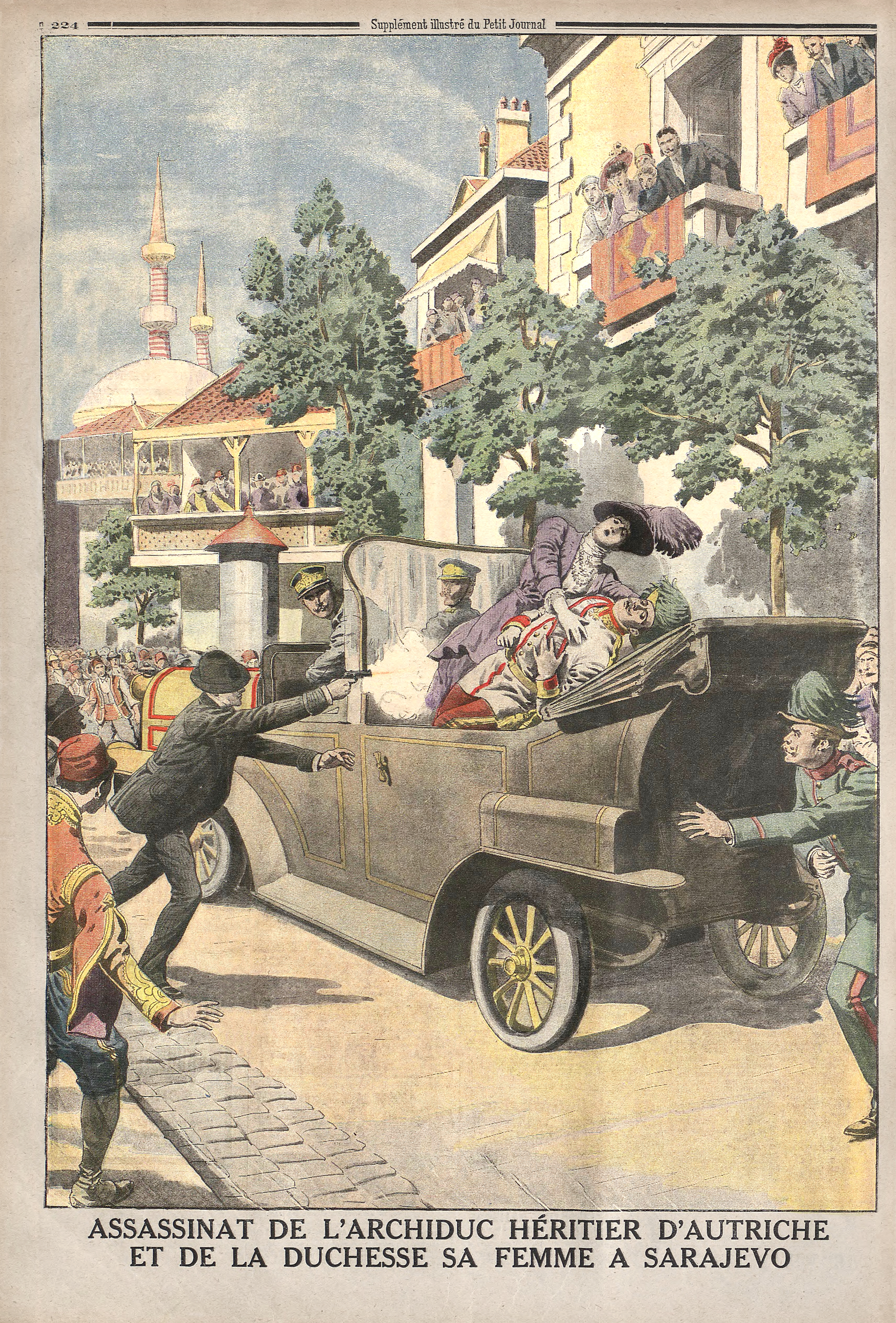 The assassination of Archduke heir of Austria and of the Duchess his wife in Sarajewo, Illustrated supplement of "Le Petit Journal". July 12, 1914.